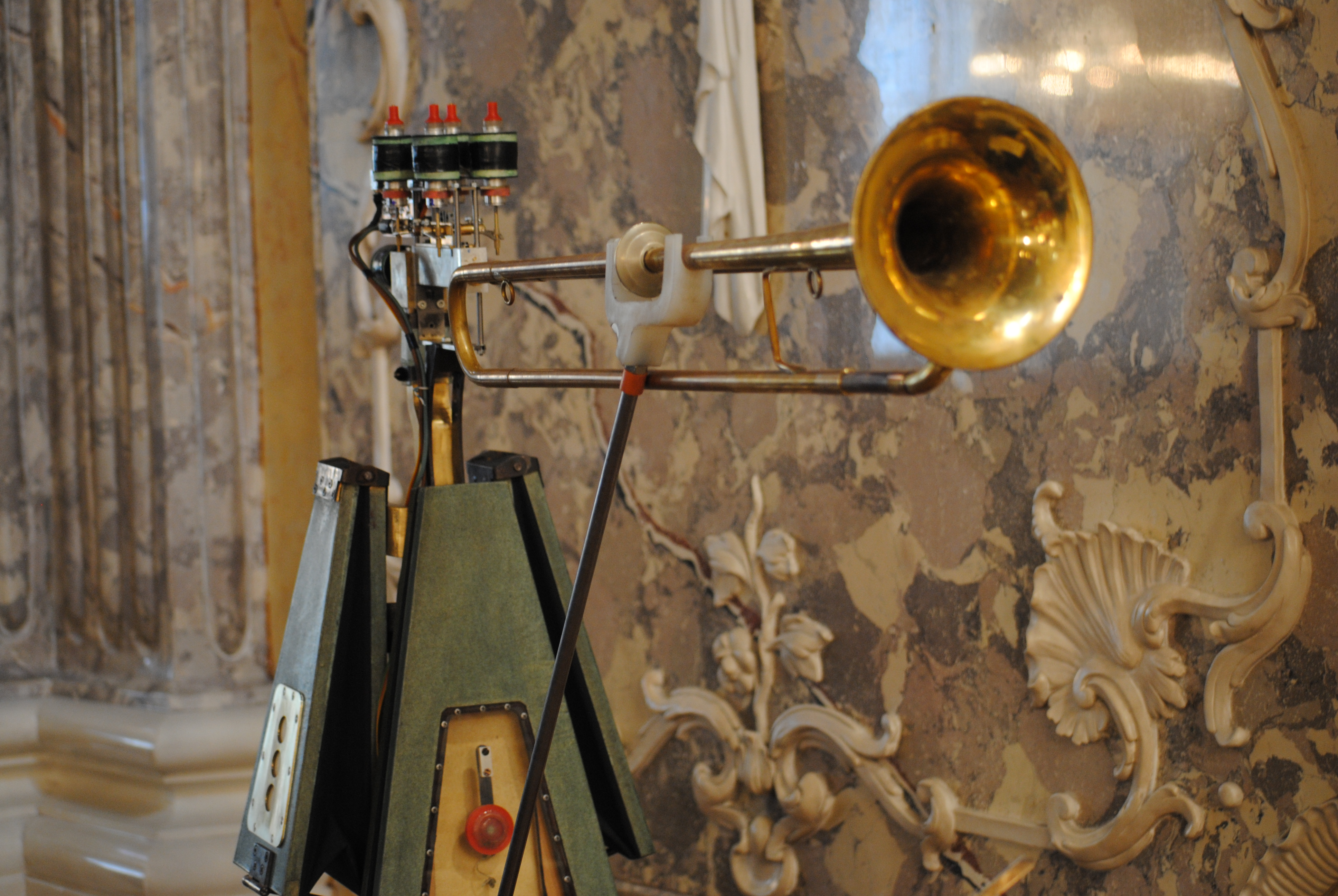 Remake of the automatic trumpeter of Johann Mälzel (1813) by the Austrian artist Jakob Scheid (2015). Picture taken at a concert in the Baroque Festsaal of the Austrian Acadey of Sciences.